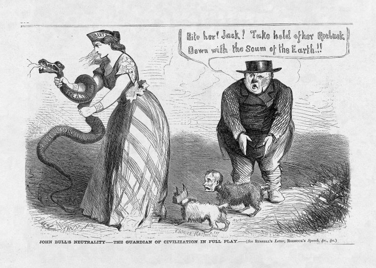 "John Bull's Neutrality - The Guardian of Civilization in Full Play" - cartoon published in "Harper's Weekly", September 13, 1862 on British sympathies for the Confederacy during the American Civil War and London's threats to recognize Southern independence; John Bull sends his dogs (one with the head of British foreign minister John Russell and the other representing pro-Confederate MP John Arthur Roebuck) to attack an allegory of American liberty struggling with the serpent of treason and rebellion.